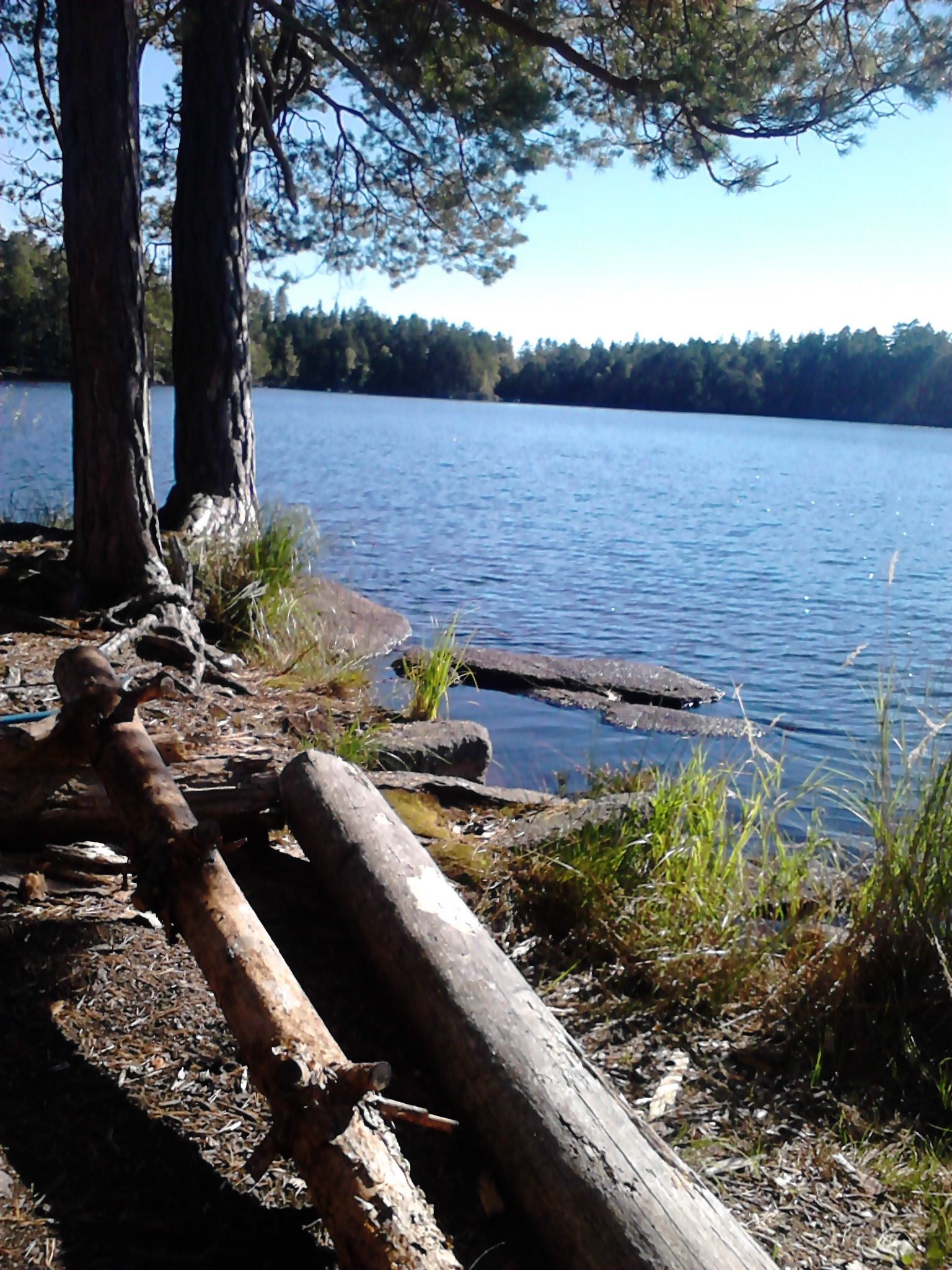 Picture taken att hiking rout Tjustleden